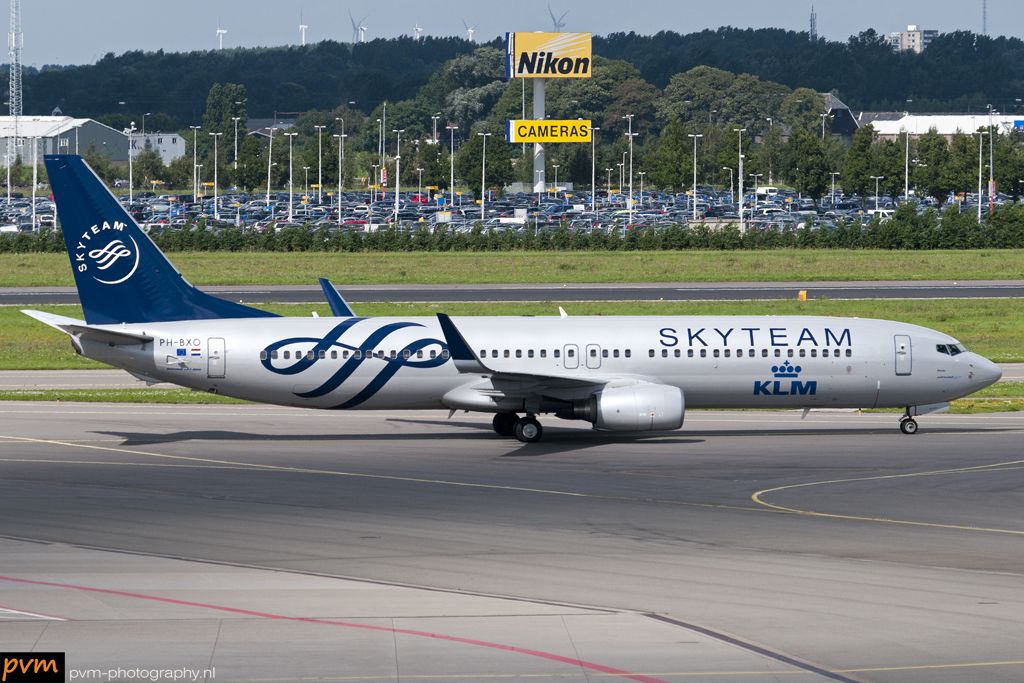 Sky team livery finally spotted and a free nikon commercial in the background :) Boeing 737-9K2 Amsterdam schiphol [AMS / EHAM] 28-08-2010